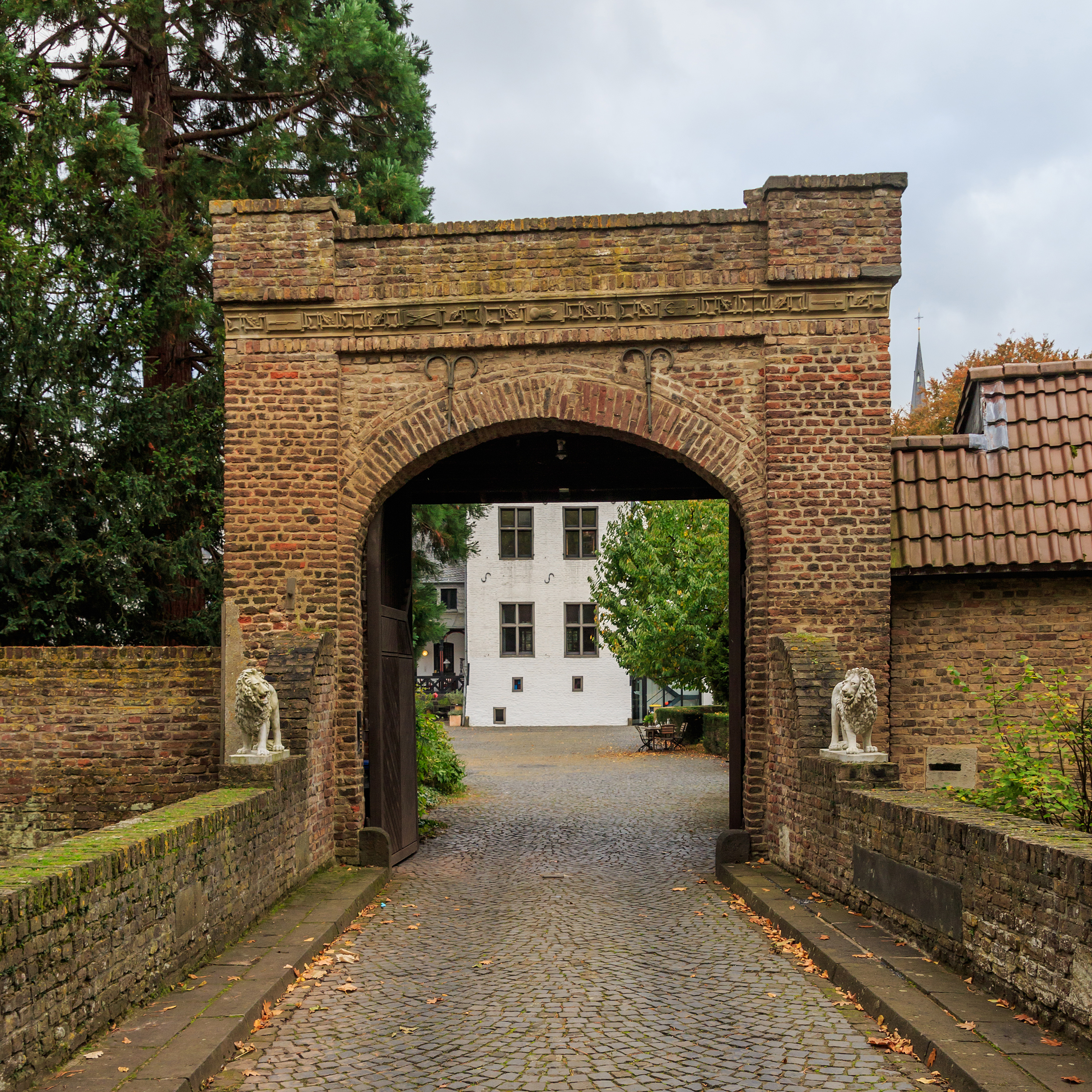 Gleuel castle in Hürth, Rhein-Erft-Kreis (Germany)